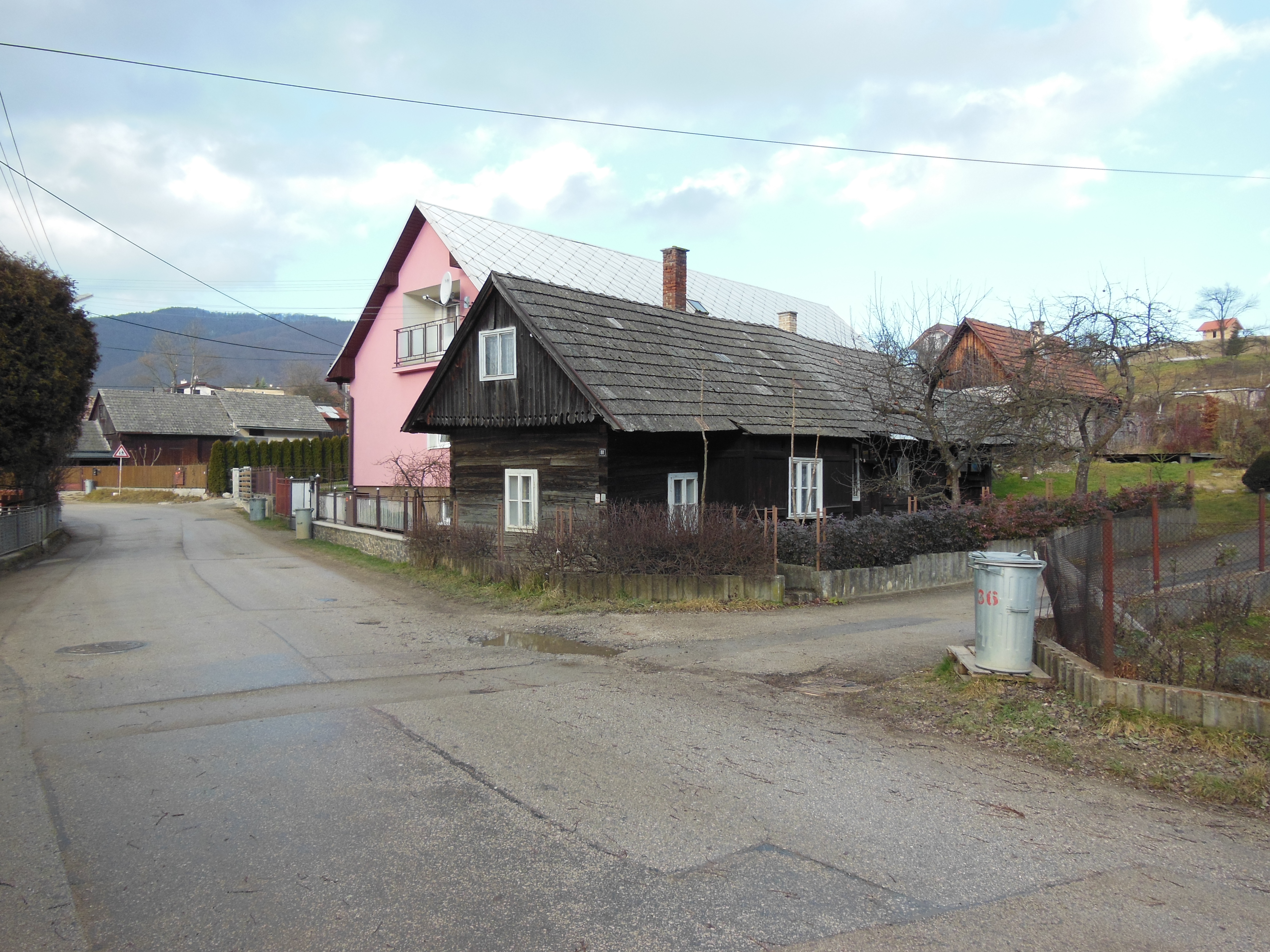 This is a main road in Poluvsie-Rajecké Teplice.